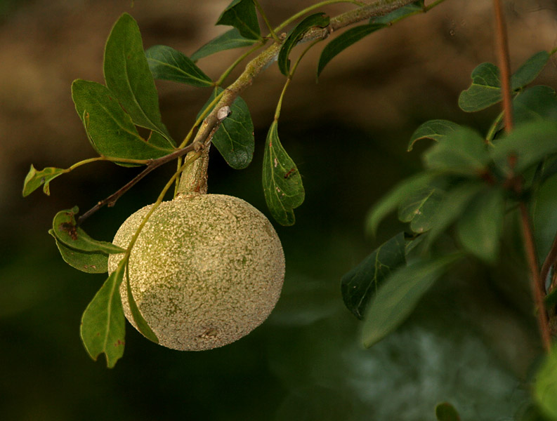 Wood-apple Limonia acidissima syn. Limonia elephantum at Talakona forest, in Chittoor District of Andhra Pradesh, India.